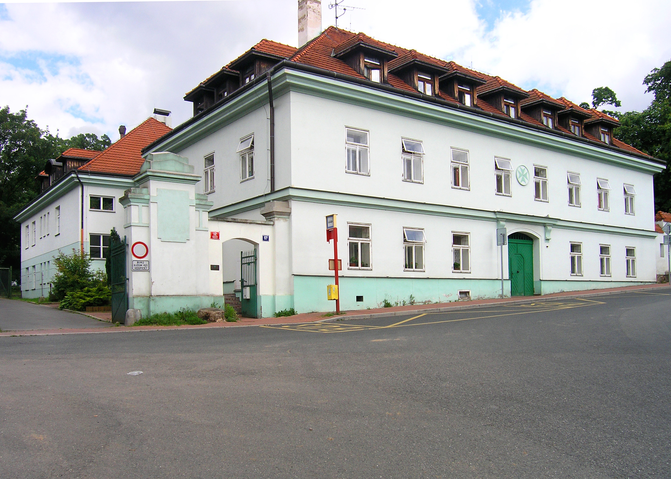 Hospice in Bohnická street in Bohnice, Prague